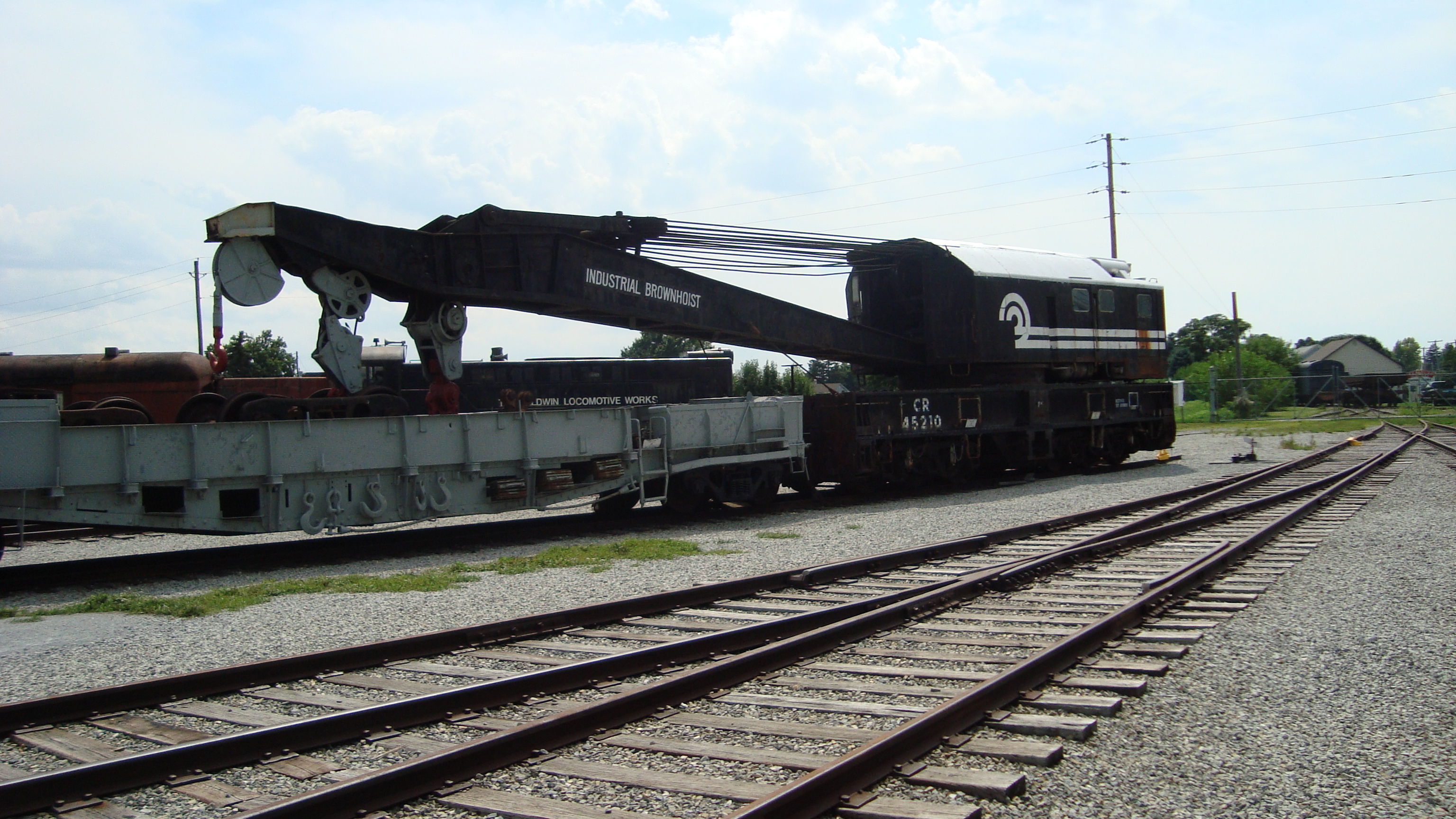 Formerly assigned to the Conway Wreck Train